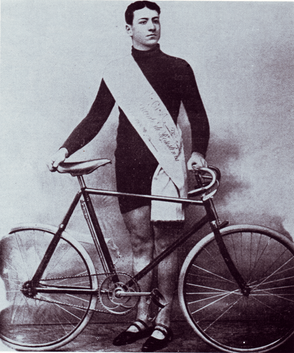 The Count Gastone Brilli Peri, as a young man and biker